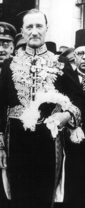 Sir Edward Spears, First British Minister to the Levant, at the presentation of his credentials to the President of Syria in Damascus.